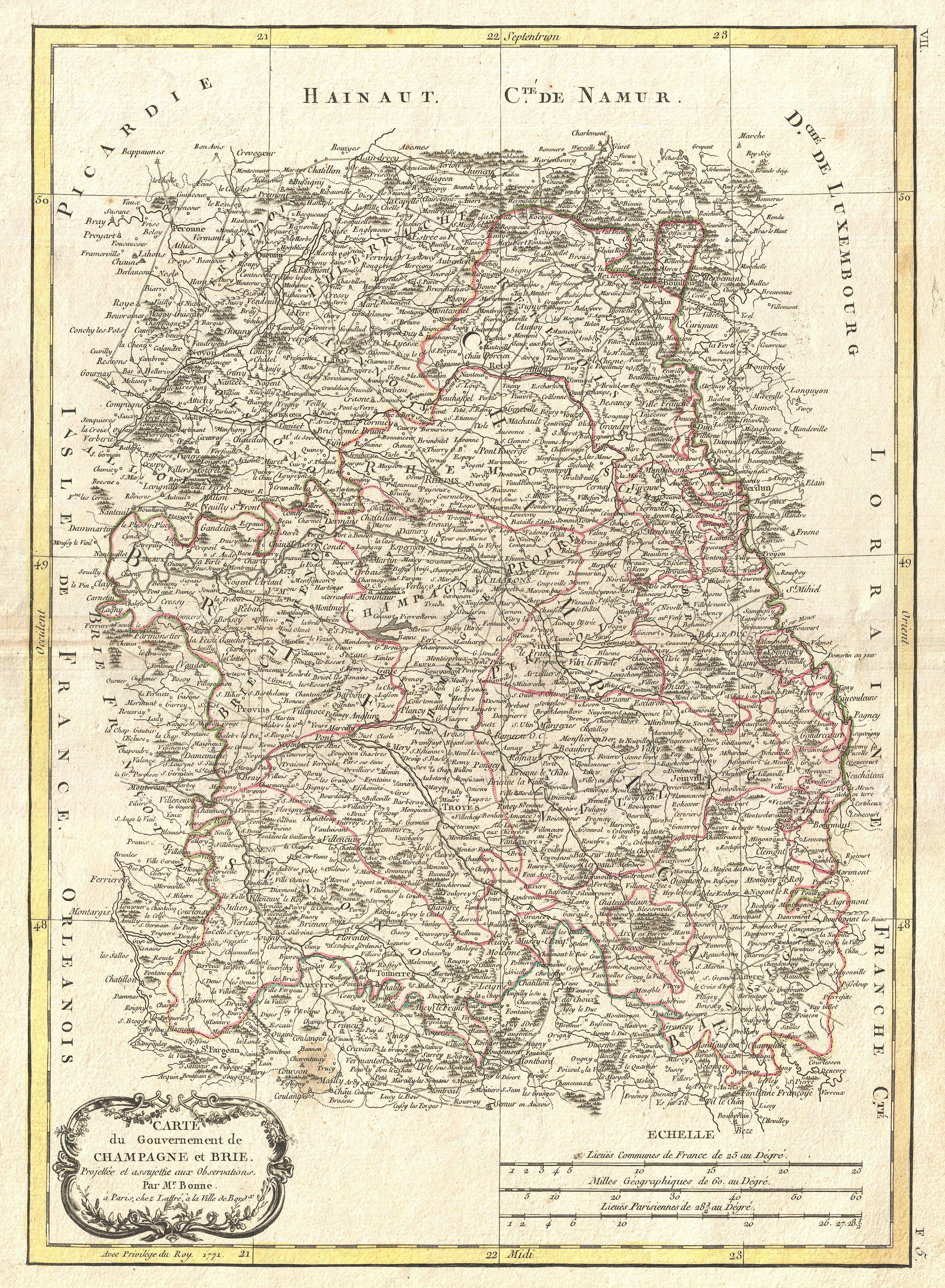 A beautiful example of Rigobert Bonne's decorative map of the French winemaking region of Champagne and the cheese making region of Brie. Covers the departments of Champagne and Brie from Picardie to Franche and from Isle de France to the Duchy of Luxembourg. This region is well known throughout the world for is production of namesake Champagne and Brie. A large decorative title cartouche appears in the lower left quadrant. Drawn by R. Bonne in 1771 for issue as plate no. F 5 in Jean Lattre's 1776 issue of the Atlas Moderne .